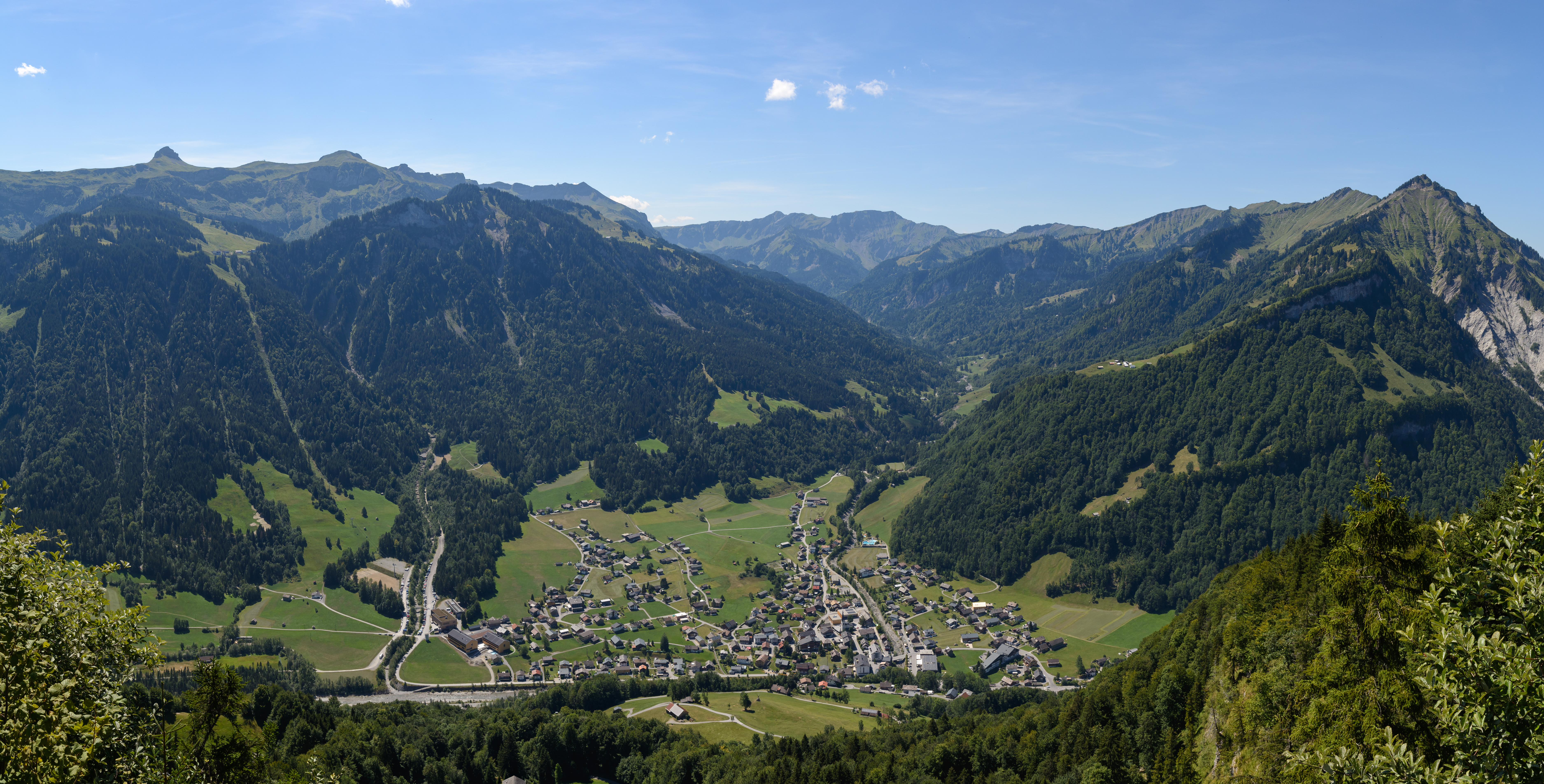 Mellau in the Bregenz Forest, Vorarlberg, Austria. Panorama from Gopf mountain (1,316 metres (4,318 ft)).